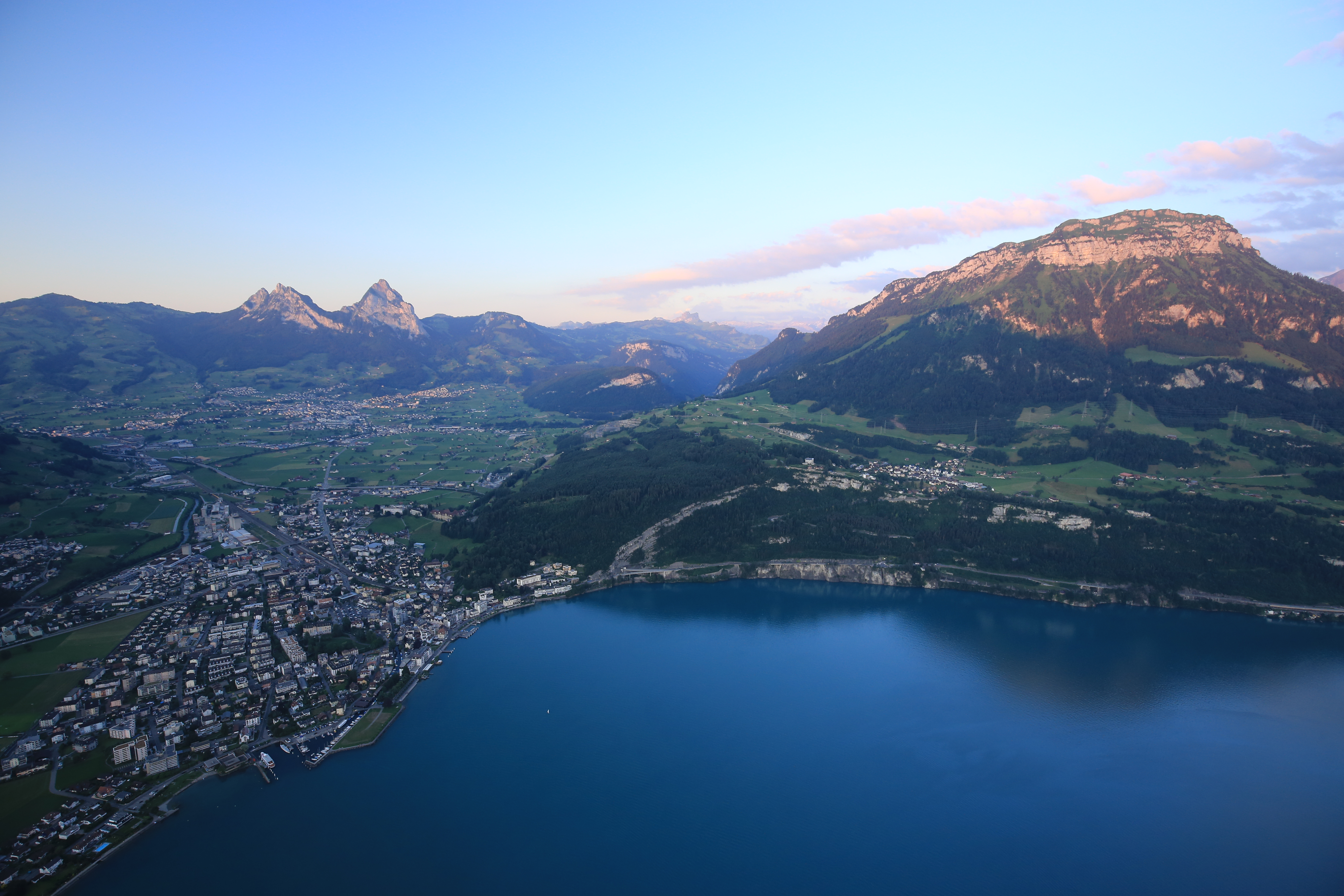 Brunnen SZ, Switzerland as seen from a paragliding flight from Niederbauen-Chulm